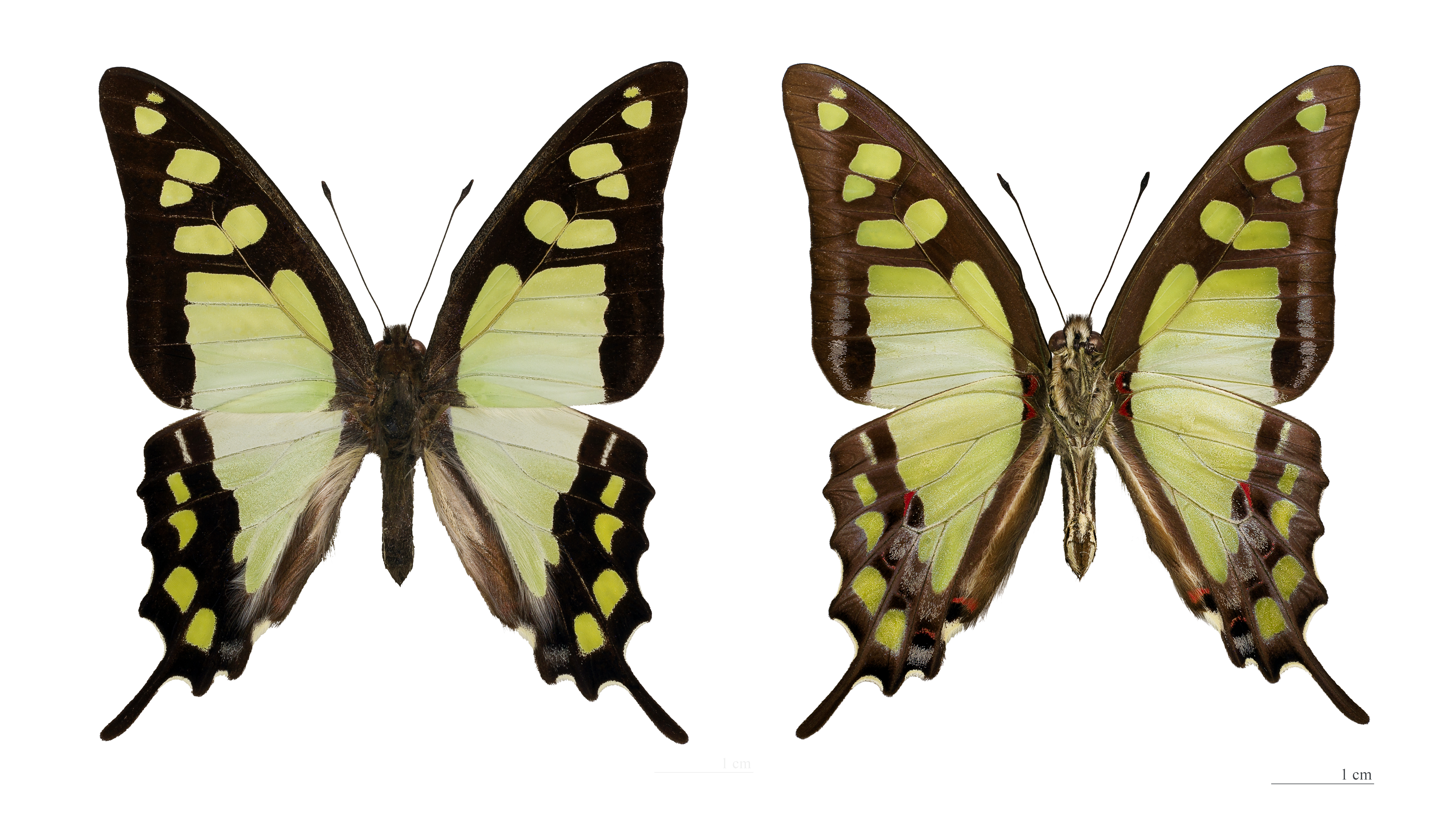 ♂ - Two views of same specimen Locality: Brastagi, Sumatra, Indonesia.